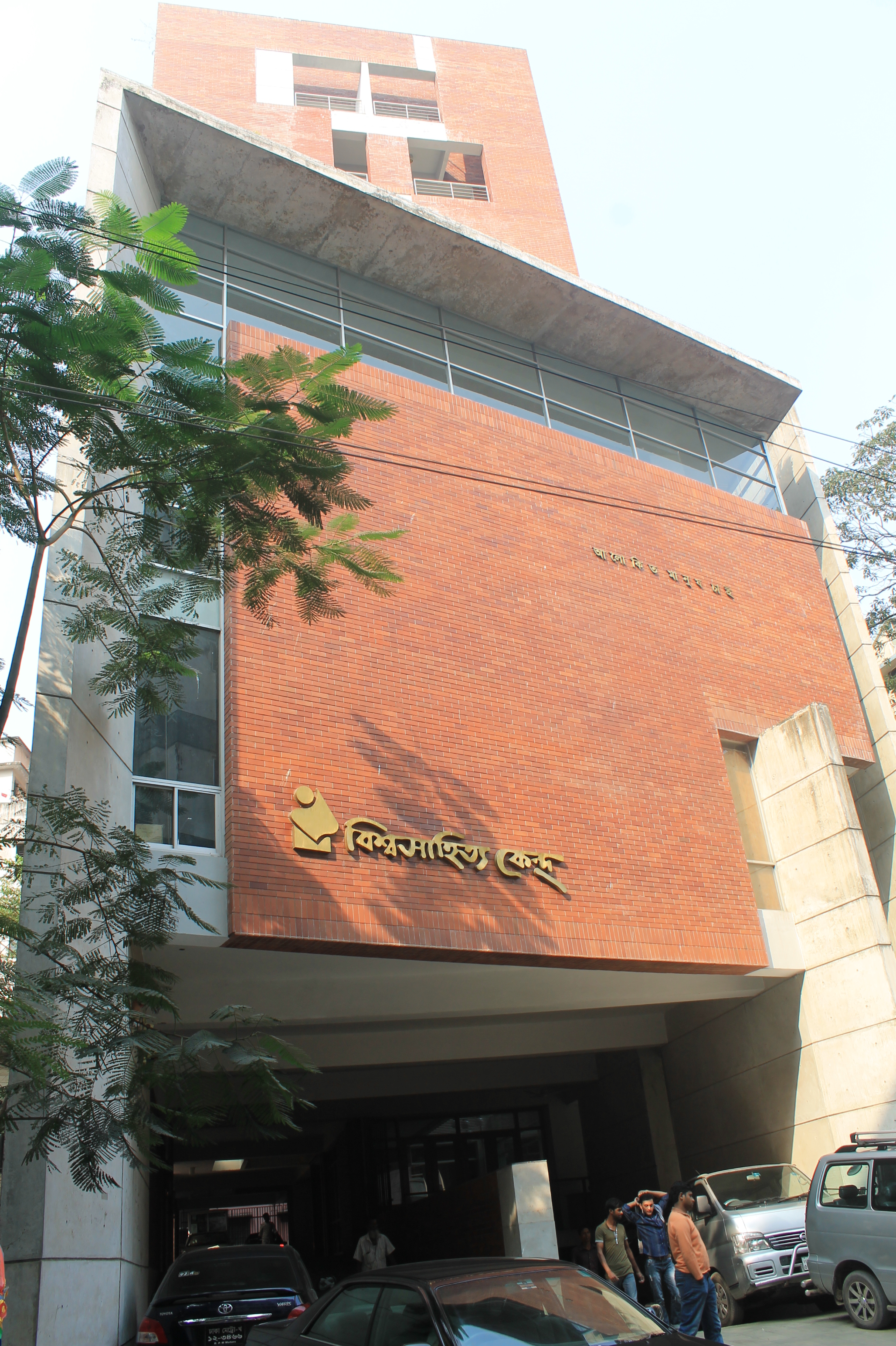 Bishwo Shahitto Kendro building in Dhaka.